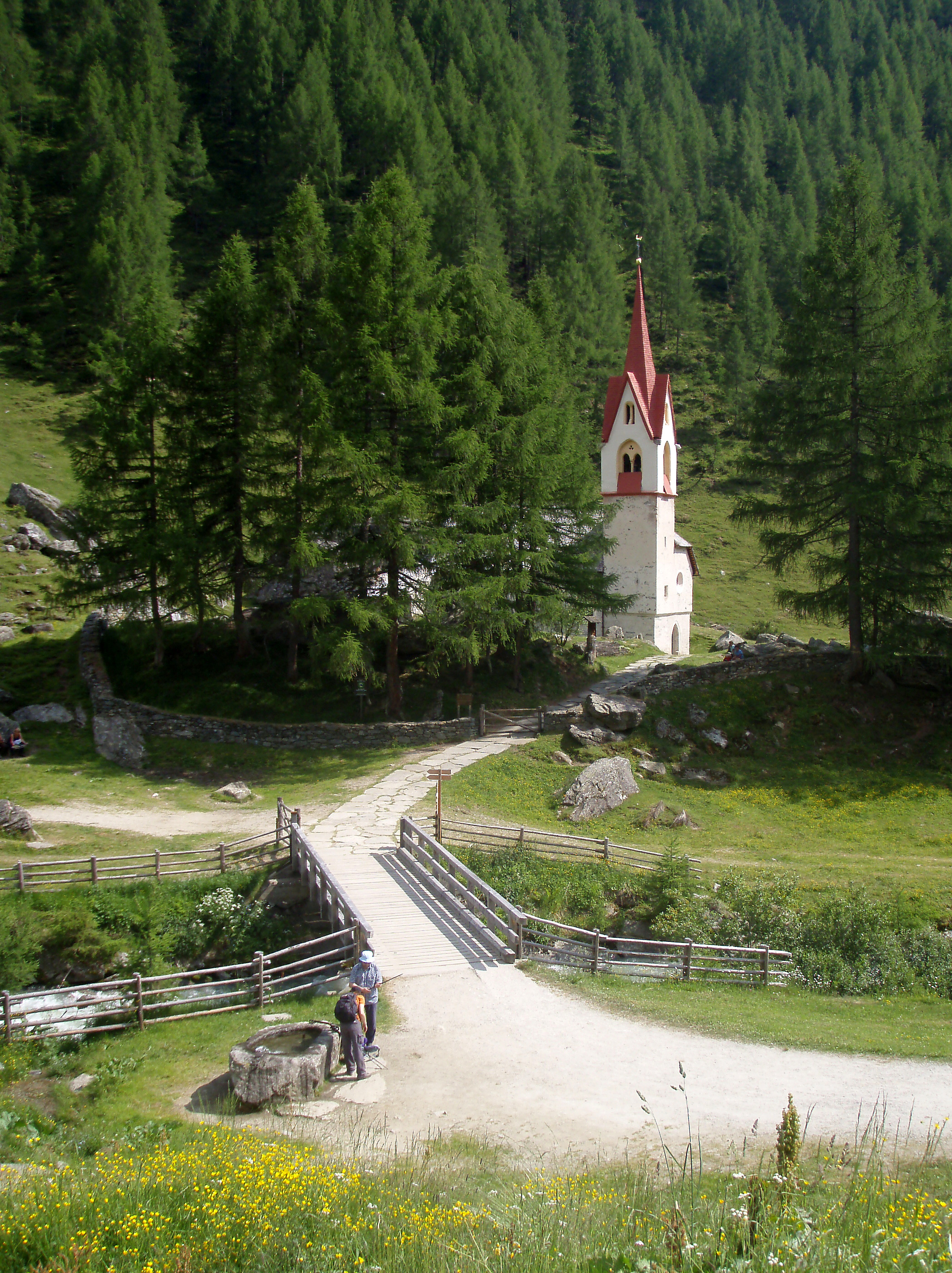 Alpine Peace Crossing is a memory-walk crossing the Krimmler Tauern pass (2.634 m) to remind of displaced persons of Jewish origin, who in 1947 lived in a camp in Saalfelden, Salzburg (state), Austria, and also to remind of refugees of these days. Most of the so called displaced persons had overcome the Nazi-conzentration camps and wanted to immigrate to Eretz Israel. At that time this was illegal and because of the British occupation army stationed in the Austrian part of Tyrol not possible on normal ways (roads, railway..). In summer 1947 therefore every second night about 150 – 200 persons walked 15 hours in the dark – children, women, men and elderly people – crossing the alps on dangerous paths and without proper clothing and shoes to reach the south of Tyrol, since 1920 part of Italy, to leave Europe via the port of Genua.